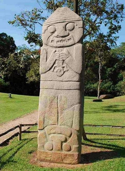 San Agustín Archaeological Park Statue